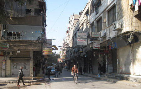 Yarmouk antes de la guerra